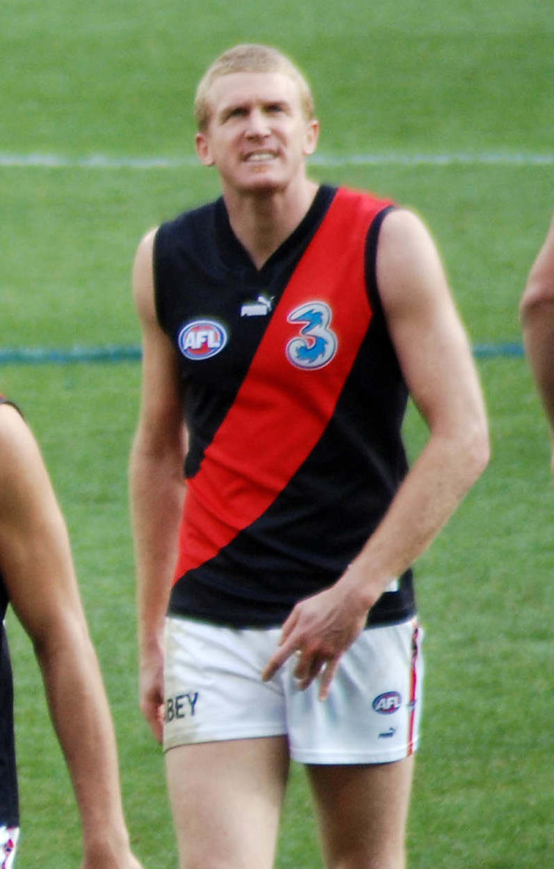 Lance Franklin (Hawthorn) accompanied by Paddy Ryder (Essendon), as he walked back to Hawthorn's forward line.